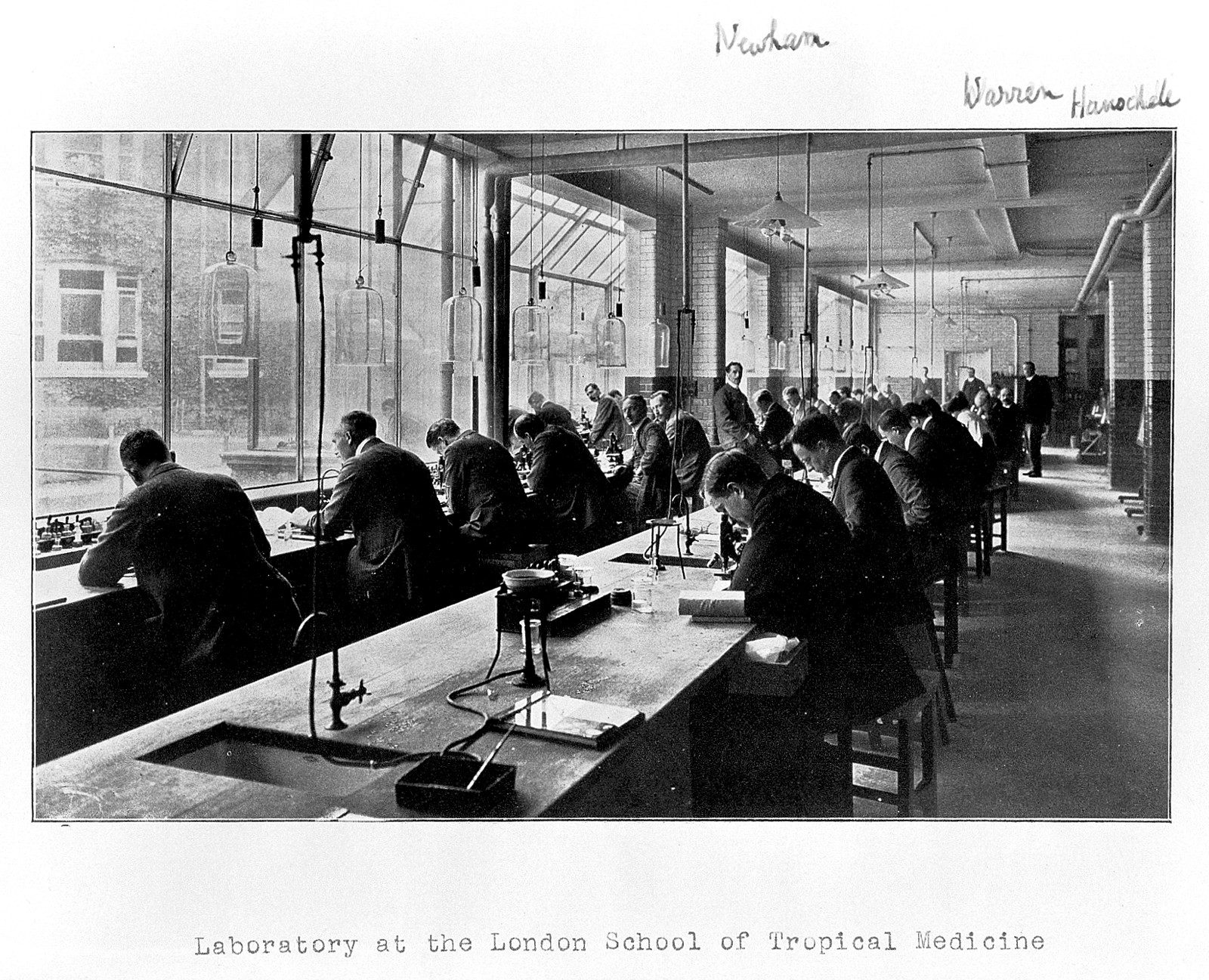 Laboratory at the London School of Tropical Medicine at the Albert Dock Hospital (Seamen's Hospital Society.) 1910. Archives & Manuscripts